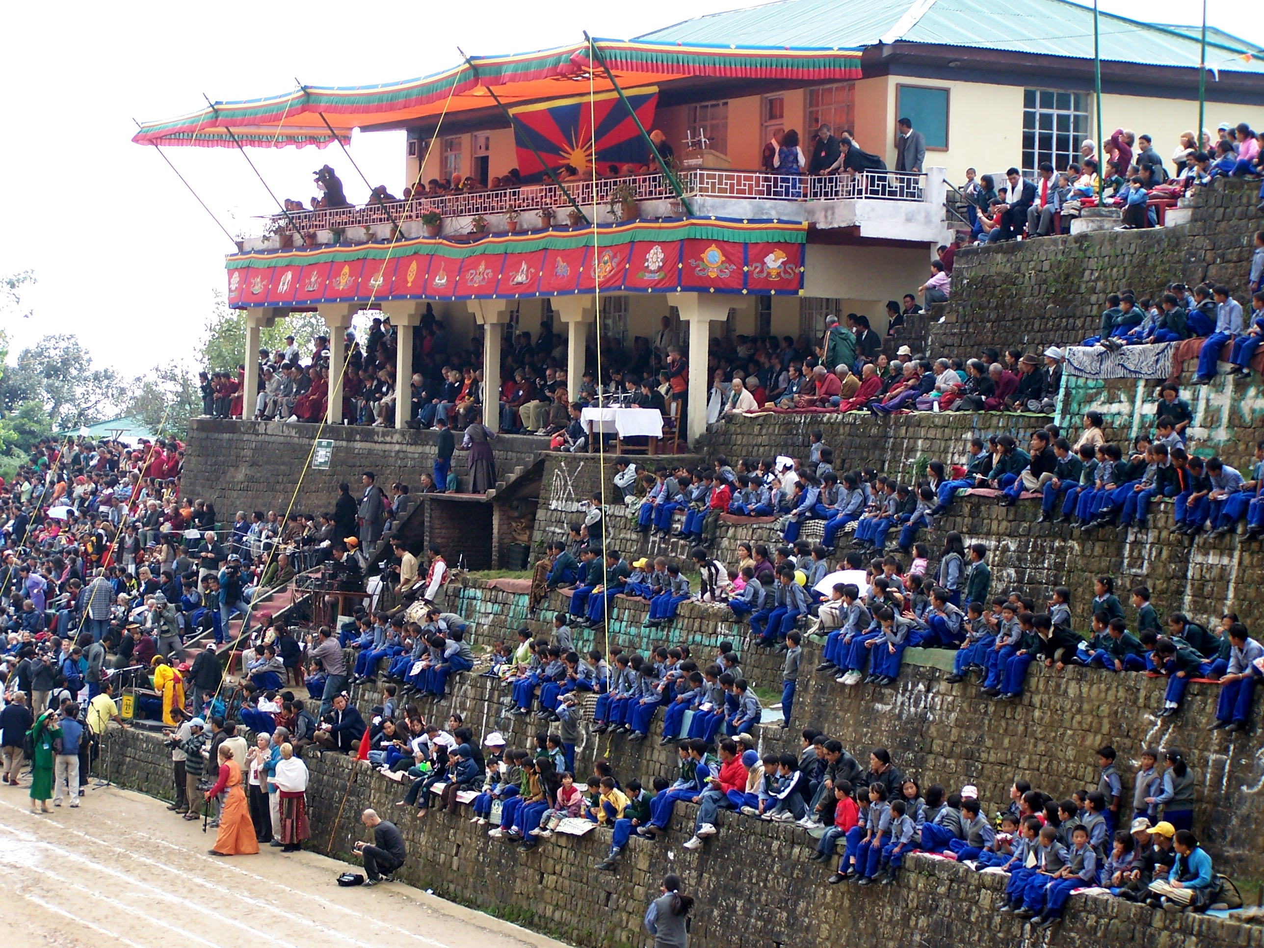 Upper TCV Sports Day